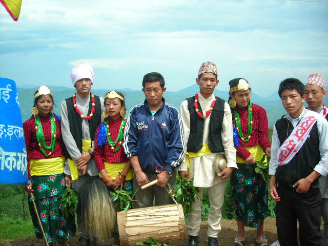 People of Nayabazar during festival.